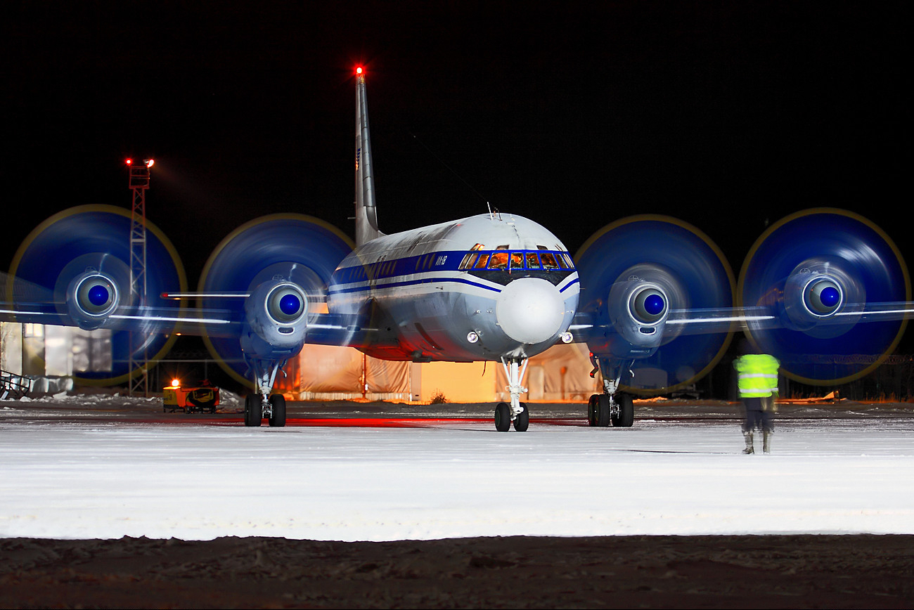 NPP Mir Ilyushin Il-18D start up at Naryan-Mar Airport